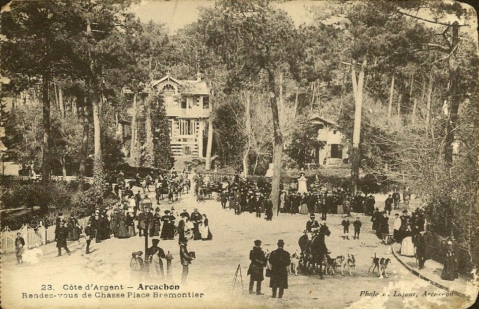 Chasse à courre